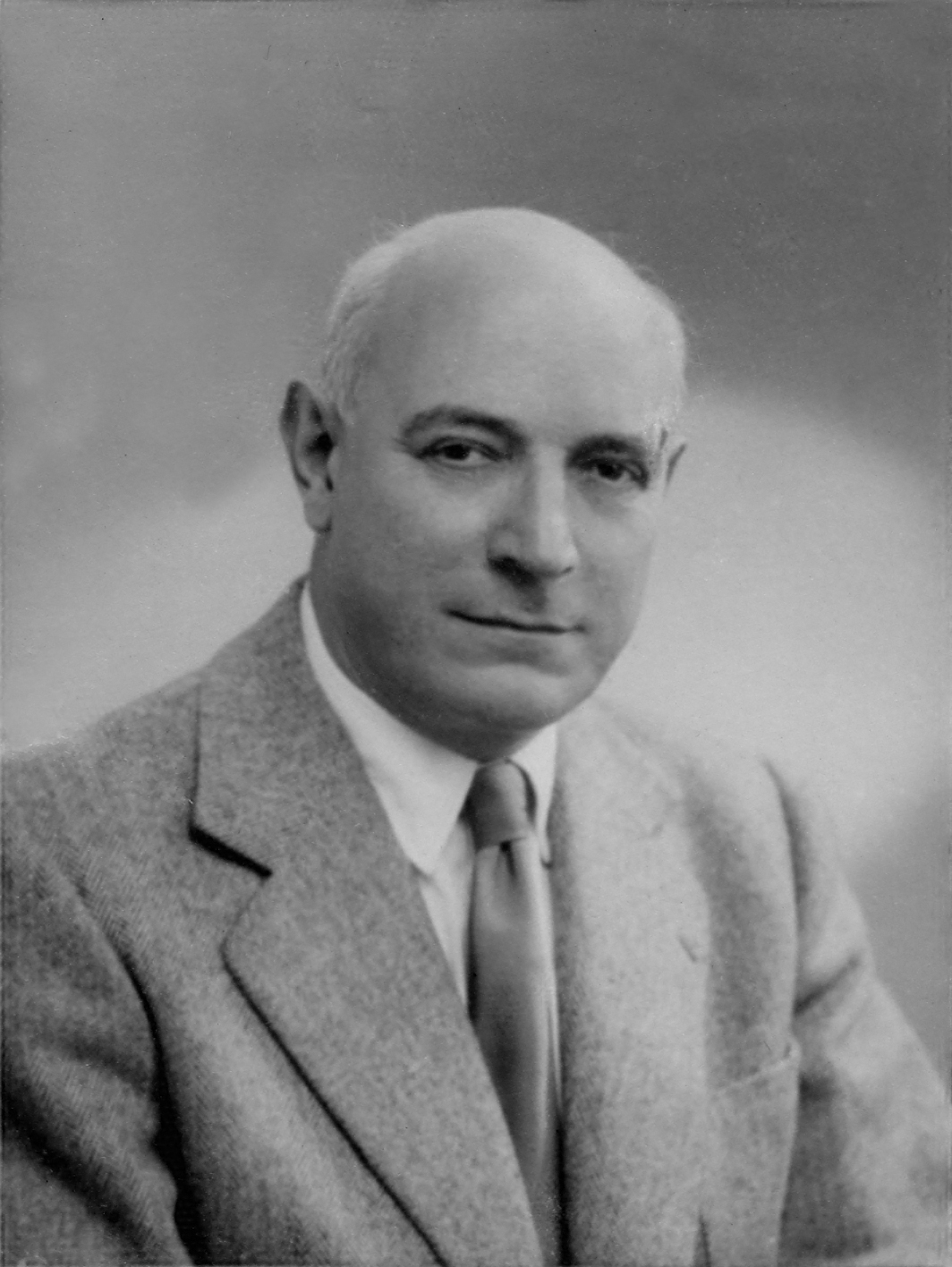 Fernand Mourlot (1895-1988), lithographer and art editor from Paris.